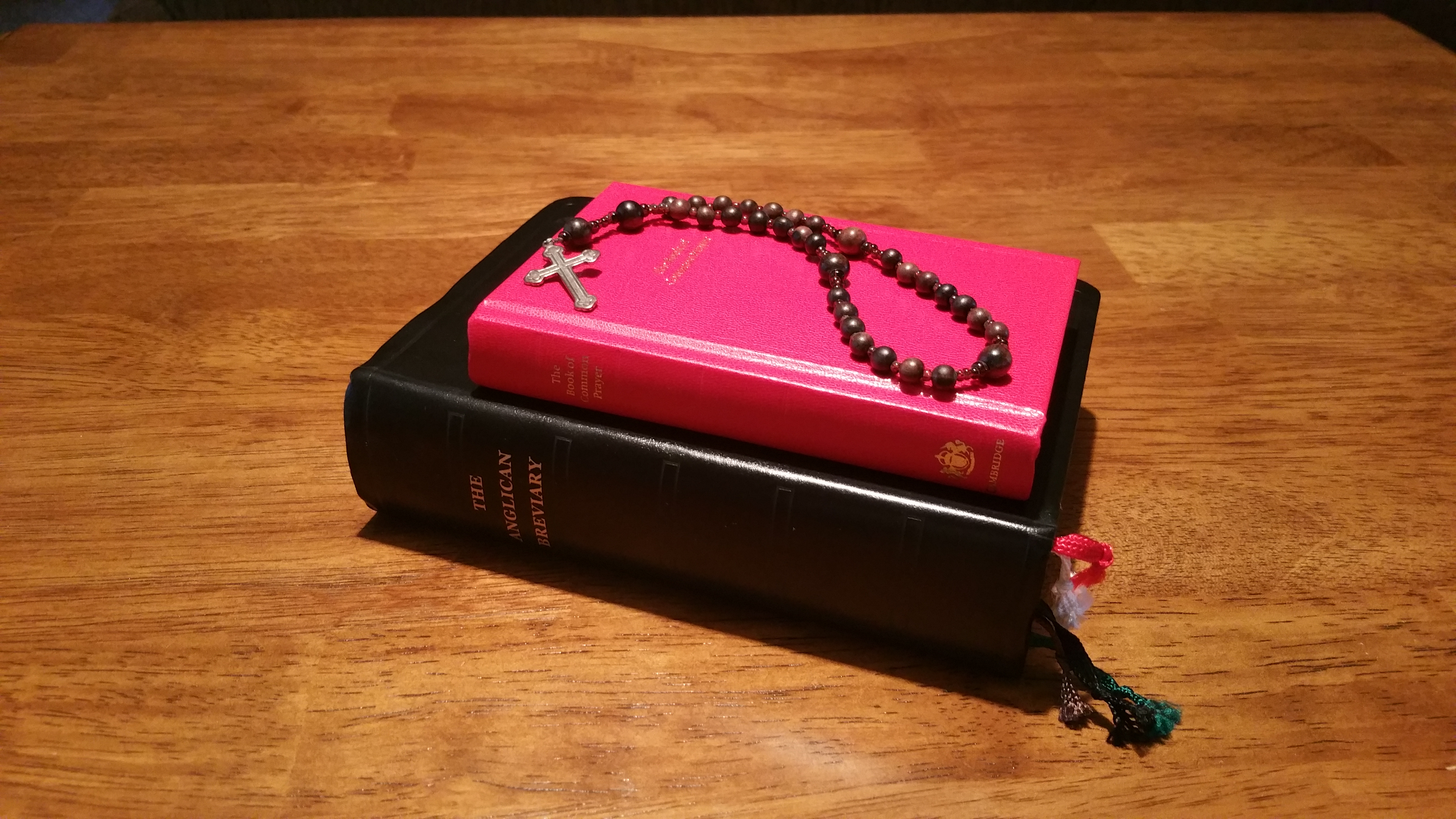 The image is of the Anglican Breviary and the Book of Common Prayer, with Anglican prayer beads laying on top of both of them. I clicked this picture on May 3, 2015.